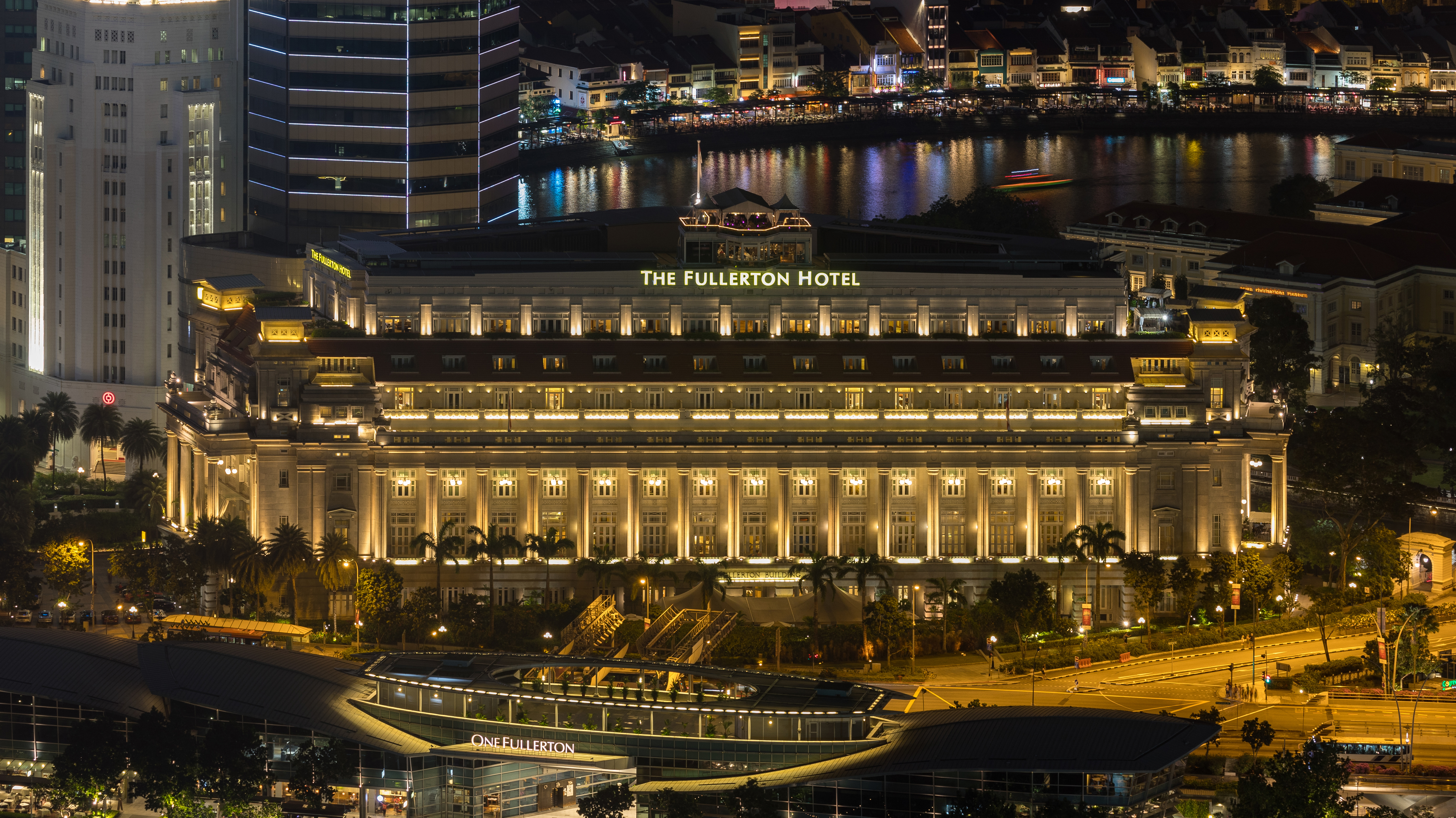 Photographs of The Fullerton Hotel of Singapore at night with colorful lights reflecting in the water (view from the Marina Bay Sands observation deck)